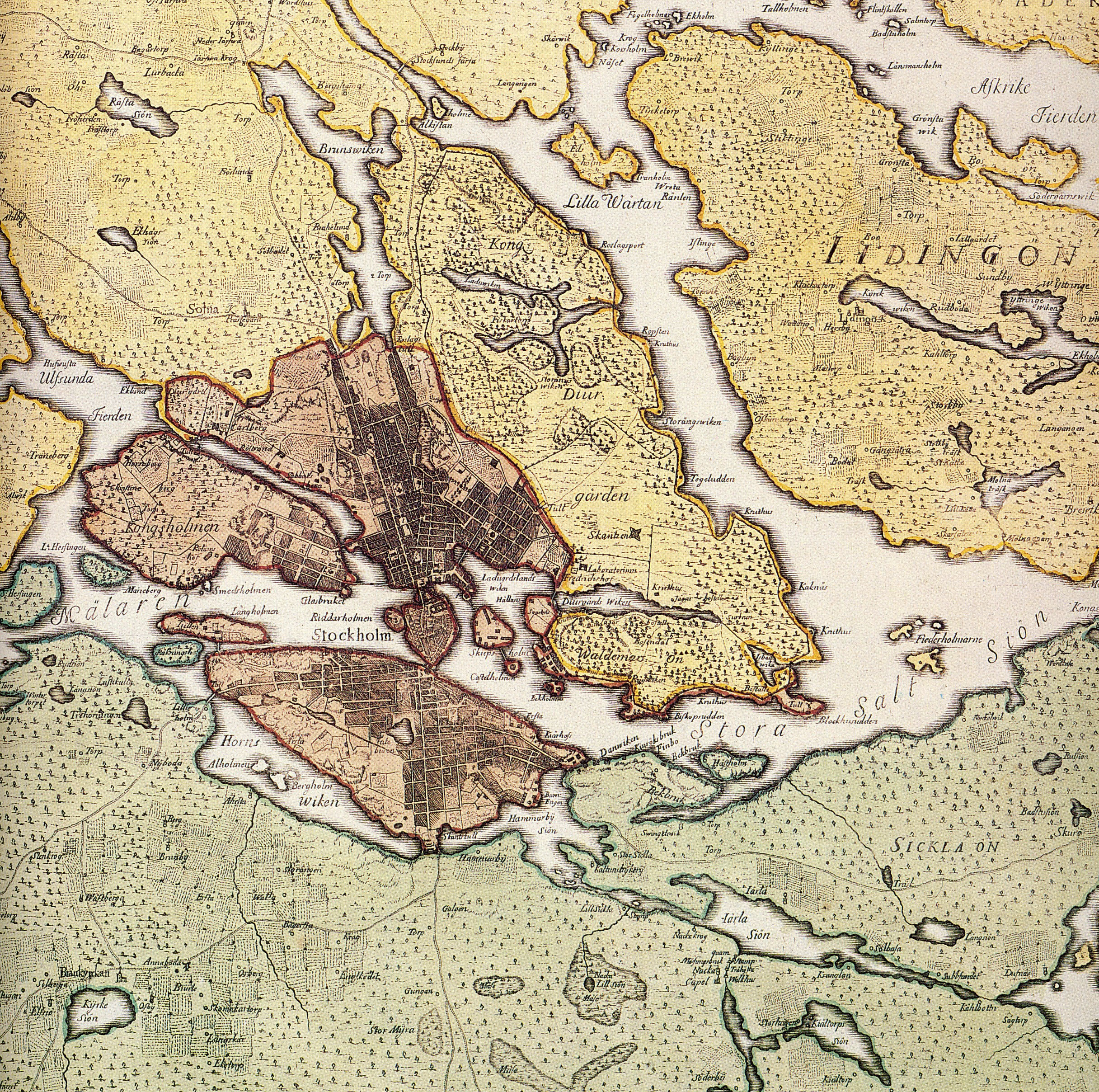 Historical map showing Stockholm, in the 18th century. The map is produced by Georg Biurman about 1750-51.